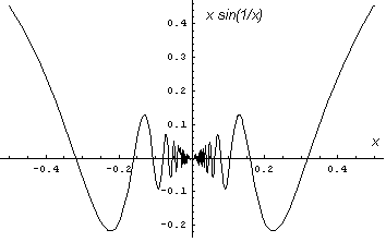 Plot of x*sin(1/x)